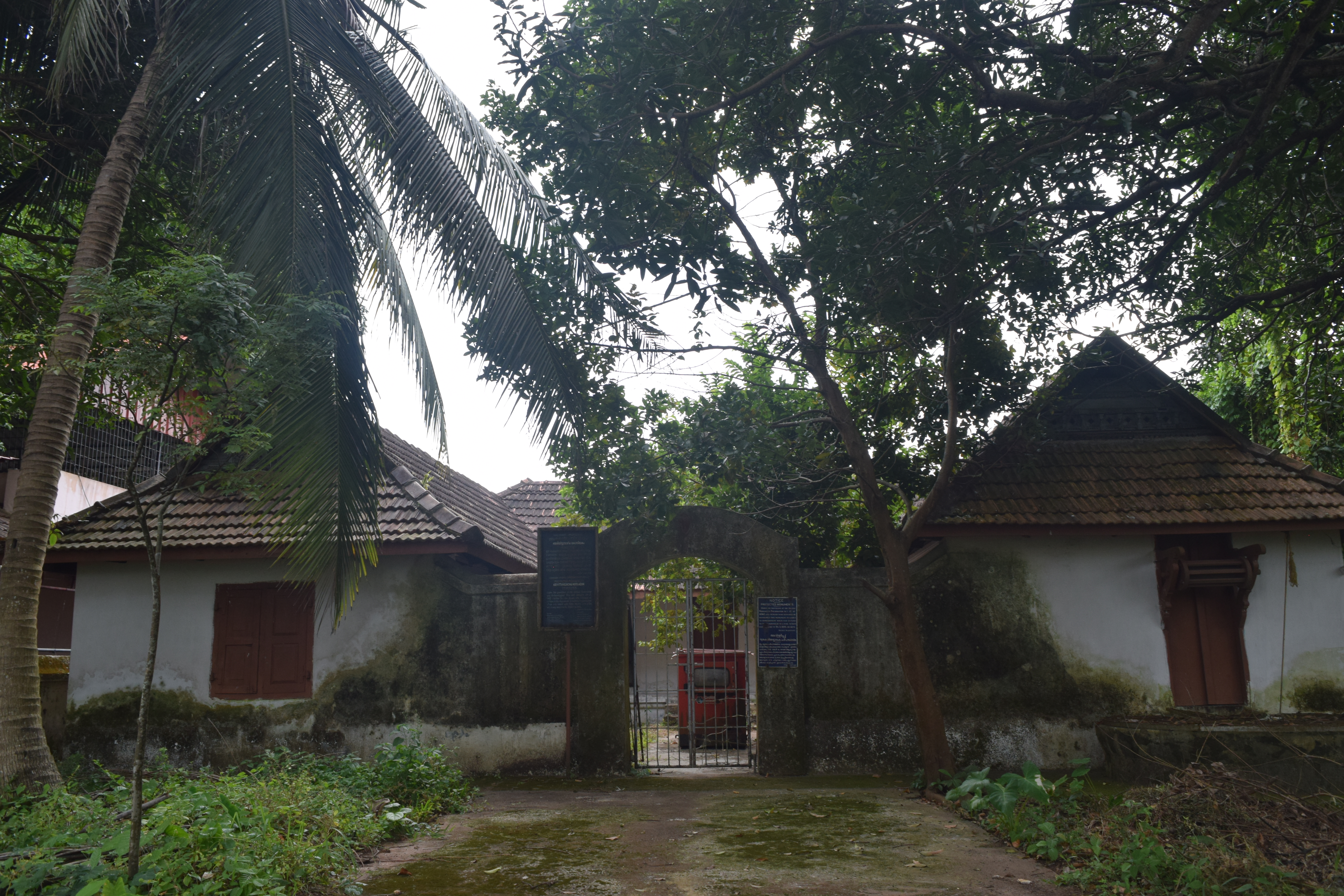 Ariyittu Vazhcha Kovilakom